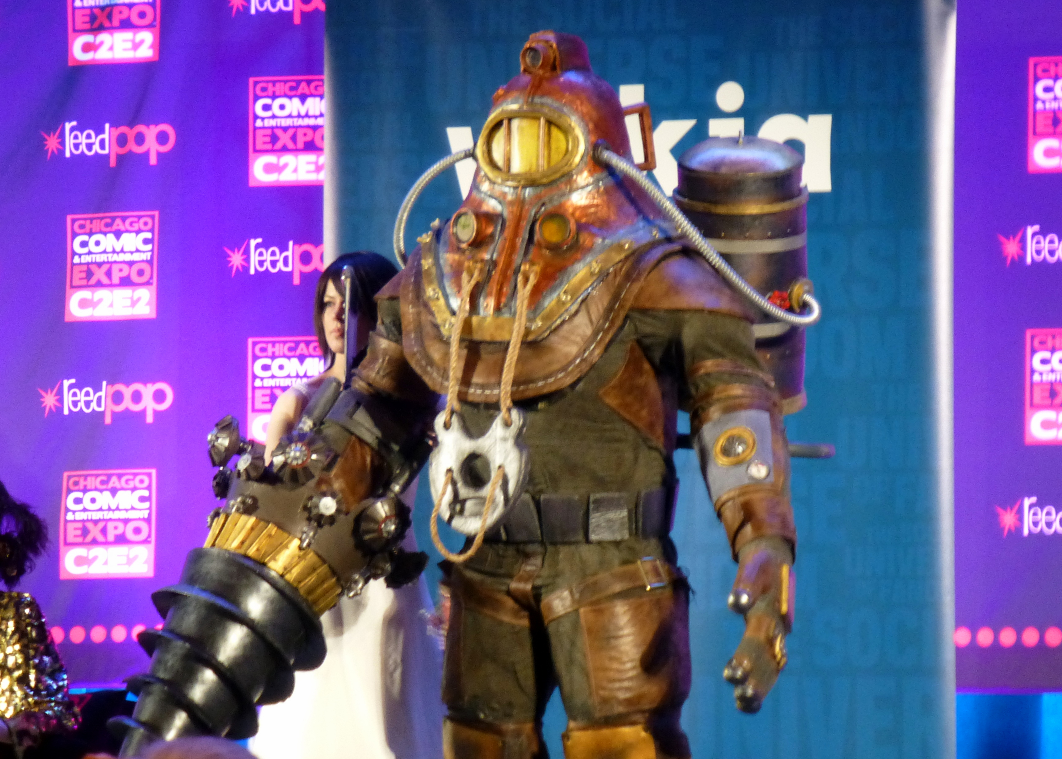 Kyle Mathis cosplaying as Big Daddy Subject Delta (from BioShock) in the First Annual Crown Championships of Cosplay at Chicago Comic & Entertainment Expo (C2E2) in 2014. Initial contest semi-finals.